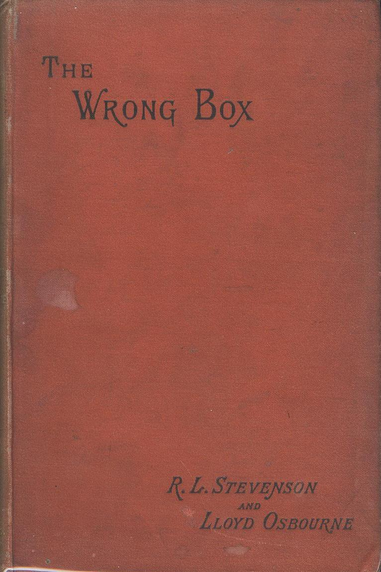 The first edition cover published by Cassel in 1889